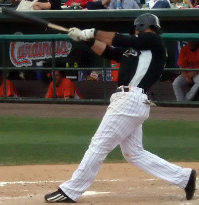 Batting in a Spring Training game vs the Baltimore Orioles on 2/29/08. I took this picture. 23:56, 26 March 2008 . . Rabbethan . . 392×404 (60 KB)